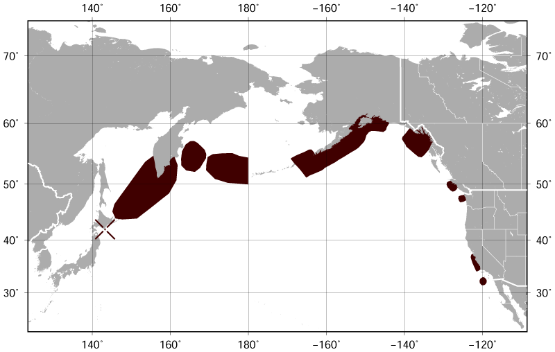 Geographical distribution of the Sea Otter Enhydra lutris. The map was created using the Generic Mapping Tools, GMT, version 5.1.2.